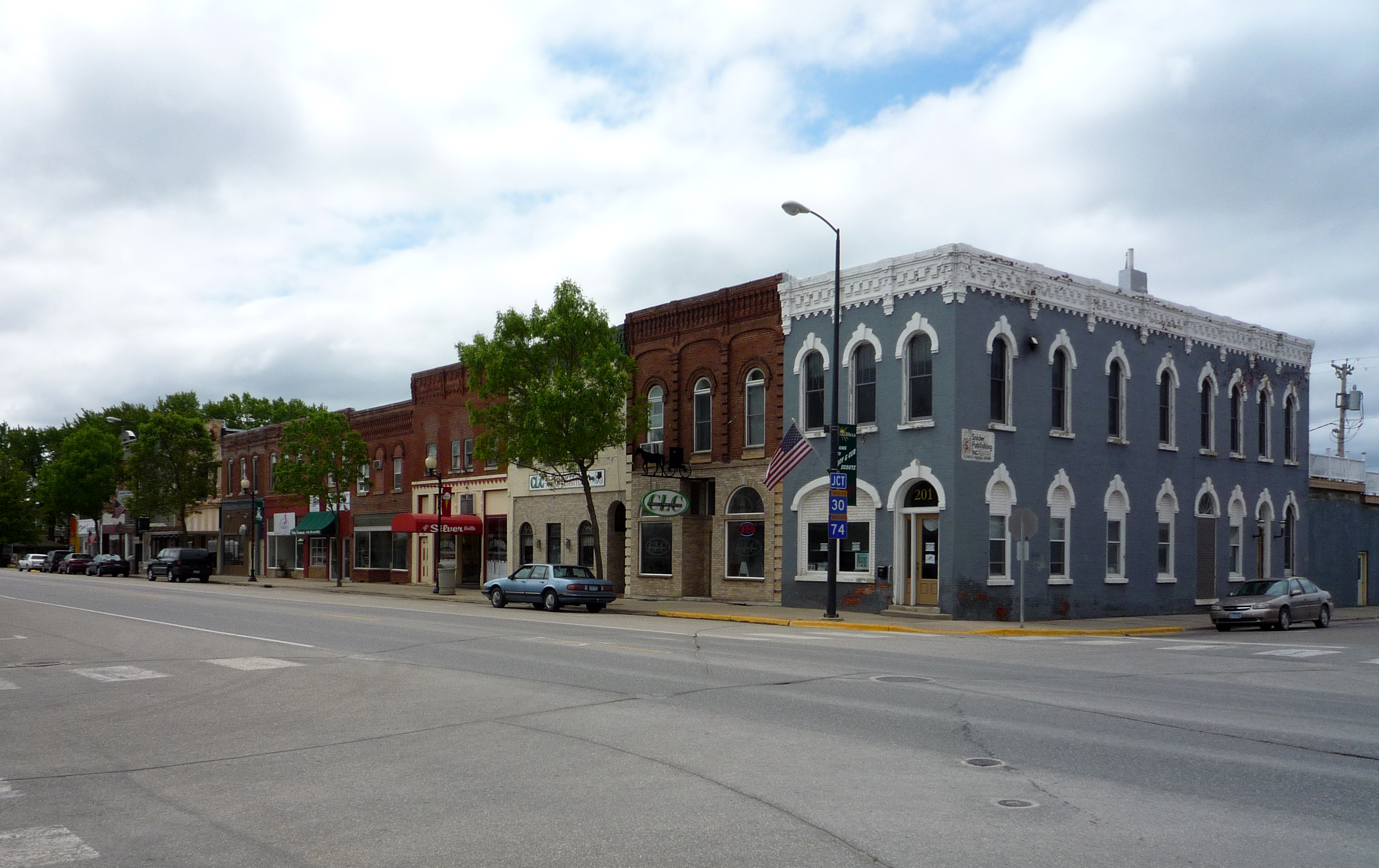 Main Street, Chatfield, Minnesota, USA.